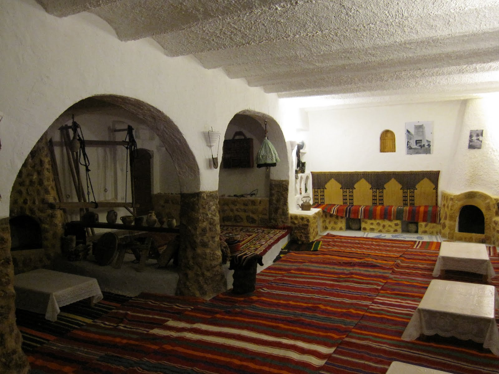 Oasis refuge in the Sahara (Ghardaïa - Algeria)